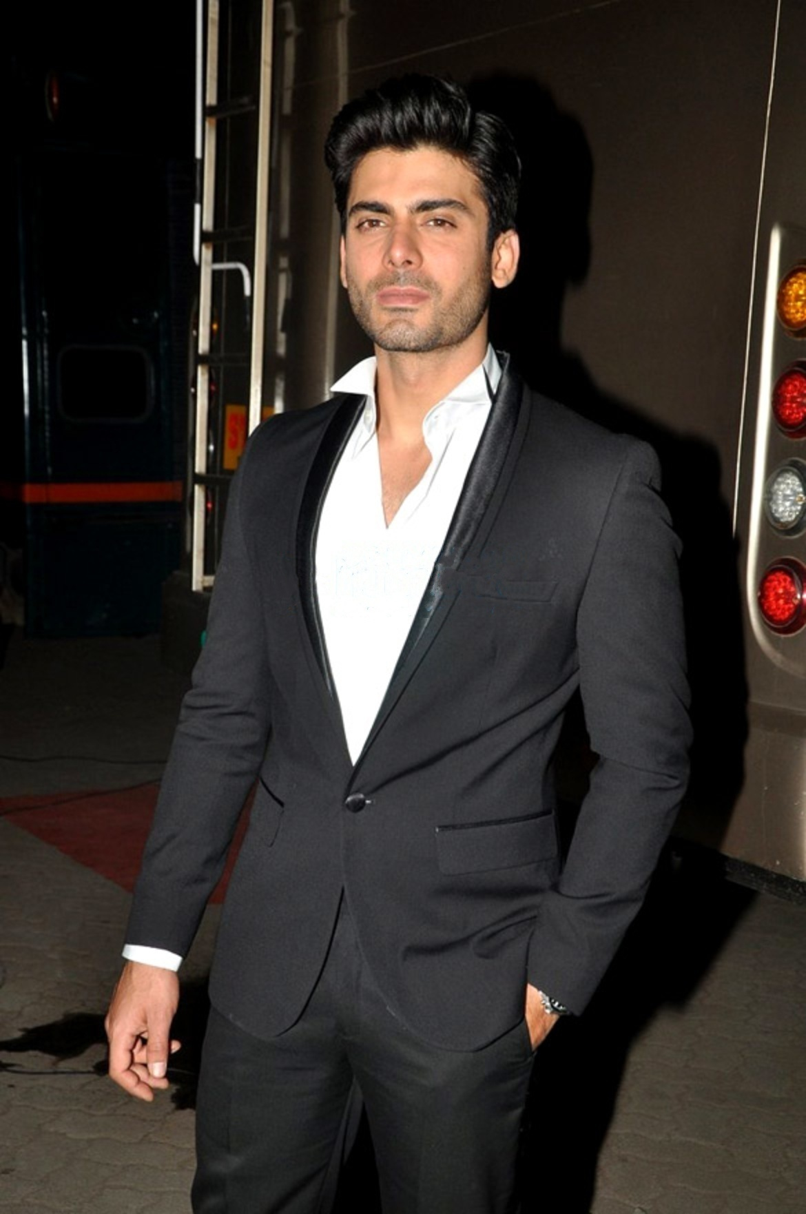 Fawad Khan at Mehboob Studio